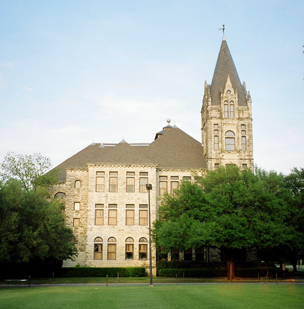 The Roy and Lillie Cullen Building at Southwestern University in Georgetown, Texas, United States.